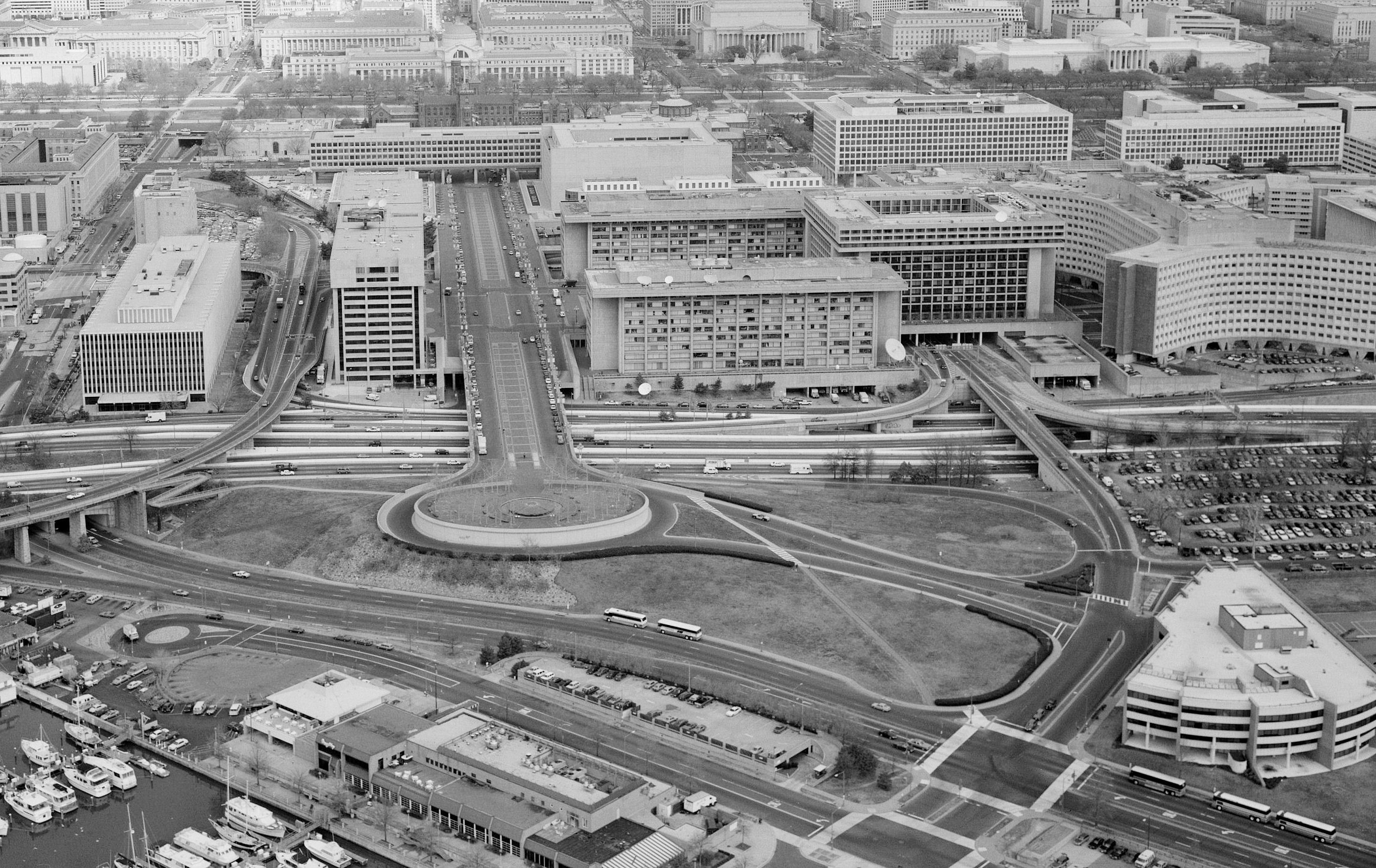 Aerial photograph looking north at L'Enfant Plaza, L'Enfant Promenade, and part of Southwest, Washington, D.C. (1992). The Potomac River waterfront is at the bottom of the image. The six-lane divided street that is Maine Avenue SW can be seen just above the waterfront and its buildings. L'Enfant Promenade is the prominent street extending north from Benjamin Banneker Park and Overlook (in the lower-center of the photograph); the James V. Forrestal Building appears to block it off, and the Smithsonian Castle can just be seen beyond the Forrestal Building. To the left of L'Enfant Promenade is the U.S. Postal Service headquarters. To the right (forming a U-shape around the plaza itself) are the North Building, South Building, and L'Enfant Plaza Hotel (9th Street SW passes beneath it). The Robert C. Weaver Federal Building (curving X-shaped building), headquarters of the U.S. Department of Housing and Urban Development, can be seen to the right of the L'Enfant Plaza Hotel. The wedge-shaped building in the lower right corner is 800 9th Street SW, the U.S. Department of Agriculture's Cooperative State Research, Education, and Extensive Service (CSREES) building. Image (1992): HABS−Historic American Building Survey images of Washington, D.C..